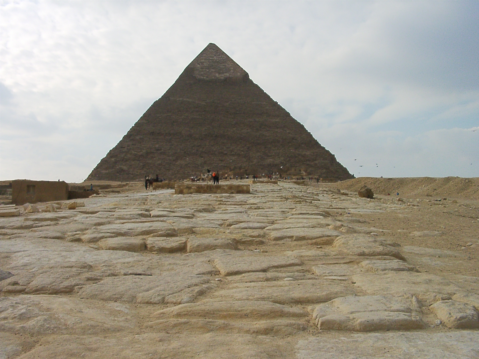 Khafre's causeway with the pyramid behind. Note the enclosures of later tombs on the causeway itself. (It was 10°C at 5:00pm - that was freeeeeezing cold there! That's not normal in November.)